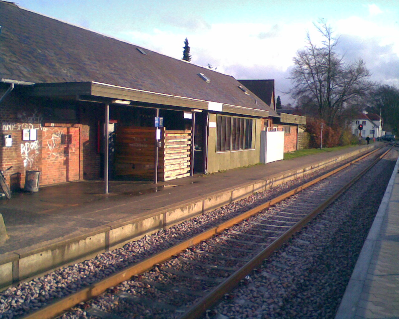 Malling Station, Denmark